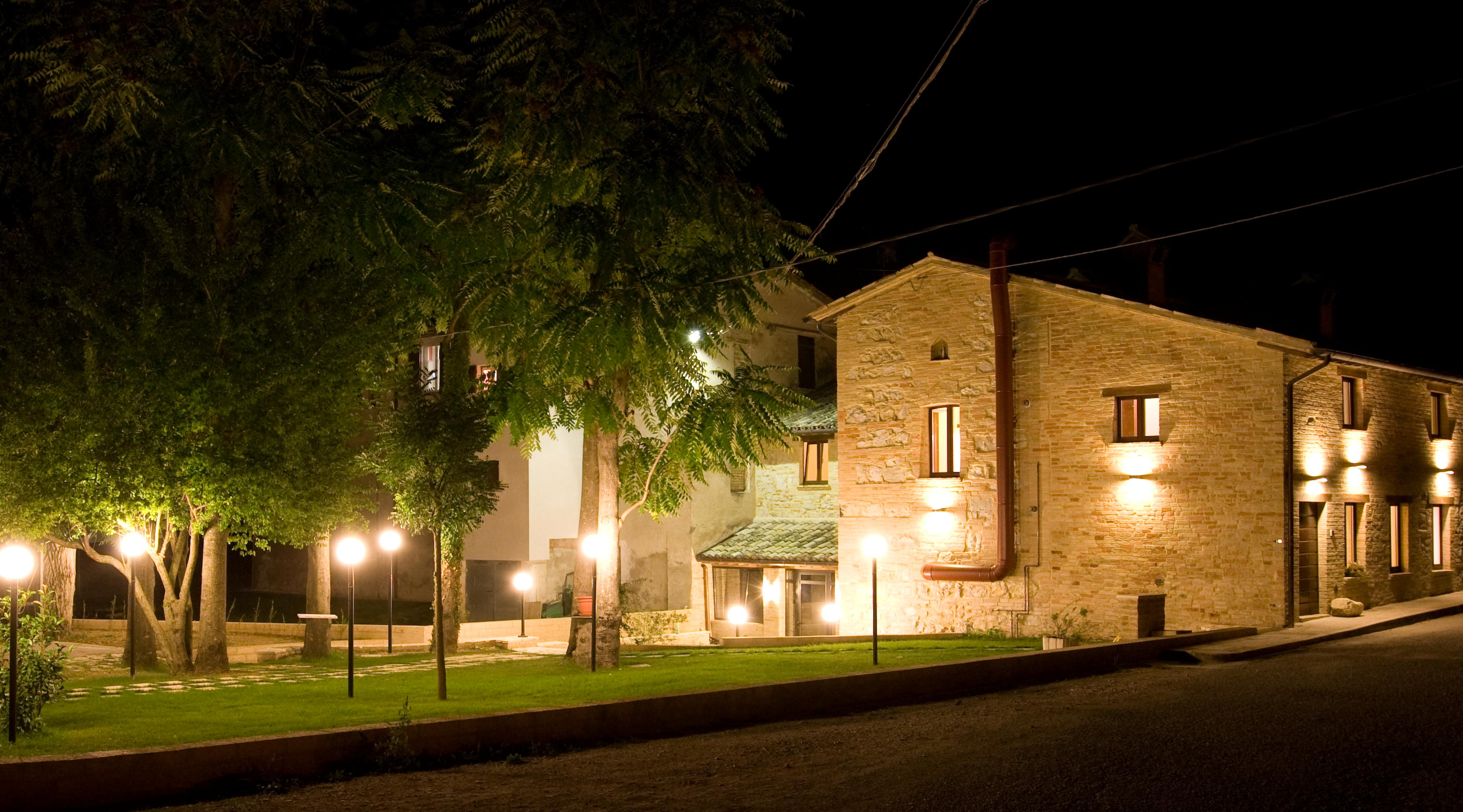 Centro Rurale di Ristoro e Degustazione ricavato da un antico mulino ad acqua